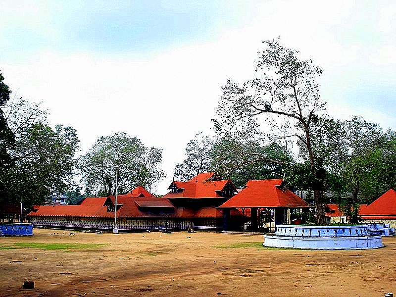 Kodungallur Bhagavathy Temple is situated at Kodungallur in Thrissur District.